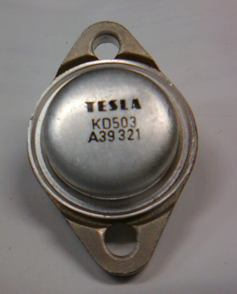 Tesla KD503 NPN silicon transistor